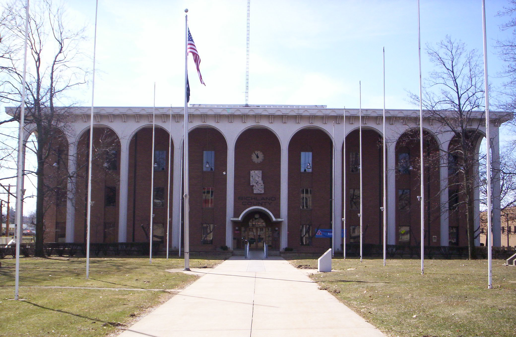 Richland County Courthouse in downtown Mansfield, Ohio, USA.